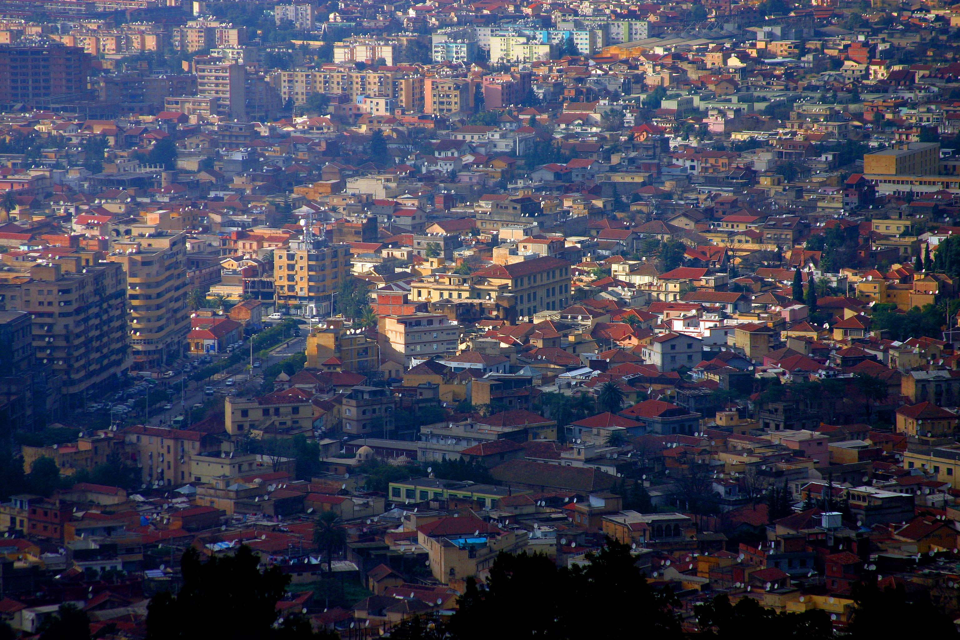 Some houses in Blida, Algeria.